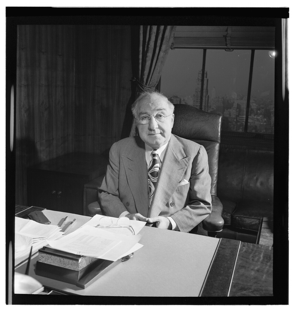 Gottlieb, William P., 1917-, photographer. [Portrait of James Petrillo in his office, New York, N.Y., ca. Feb. 1947] 1 negative : b&w ; 2 1/4 x 2 1/4 in. Notes: Gottlieb Collection Assignment No. 438 Reference print available in Music Division, Library of Congress. Purchase William P. Gottlieb Forms part of: William P. Gottlieb Collection (Library of Congress). Subjects: Petrillo, James Labor leaders--1940-1950. Format: Portrait photographs--1940-1950. Film negatives--1940-1950. Rights Info: Mr. Gottlieb has dedicated these works to the public domain, but rights of privacy and publicity may apply. Repository: (negative) Library of Congress, Prints & Photographs Division, Washington D.C. 20540 USA, (reference print) Library of Congress, Music Division, Washington D.C. 20540 USA, Part Of: William P. Gottlieb Collection (DLC) 99-401005 General information about the Gottlieb Collection is available at Persistent URL: Call Number: LC-GLB23- 0704 This work is from the William P. Gottlieb collection at the Library of Congress. Rights and restrictions.In accordance with the wishes of William Gottlieb, the photographs in this collection entered into the public domain on February 16, 2010.